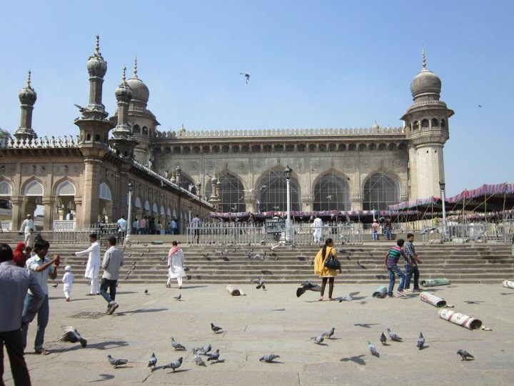 Mecca Masjid Hyderabad